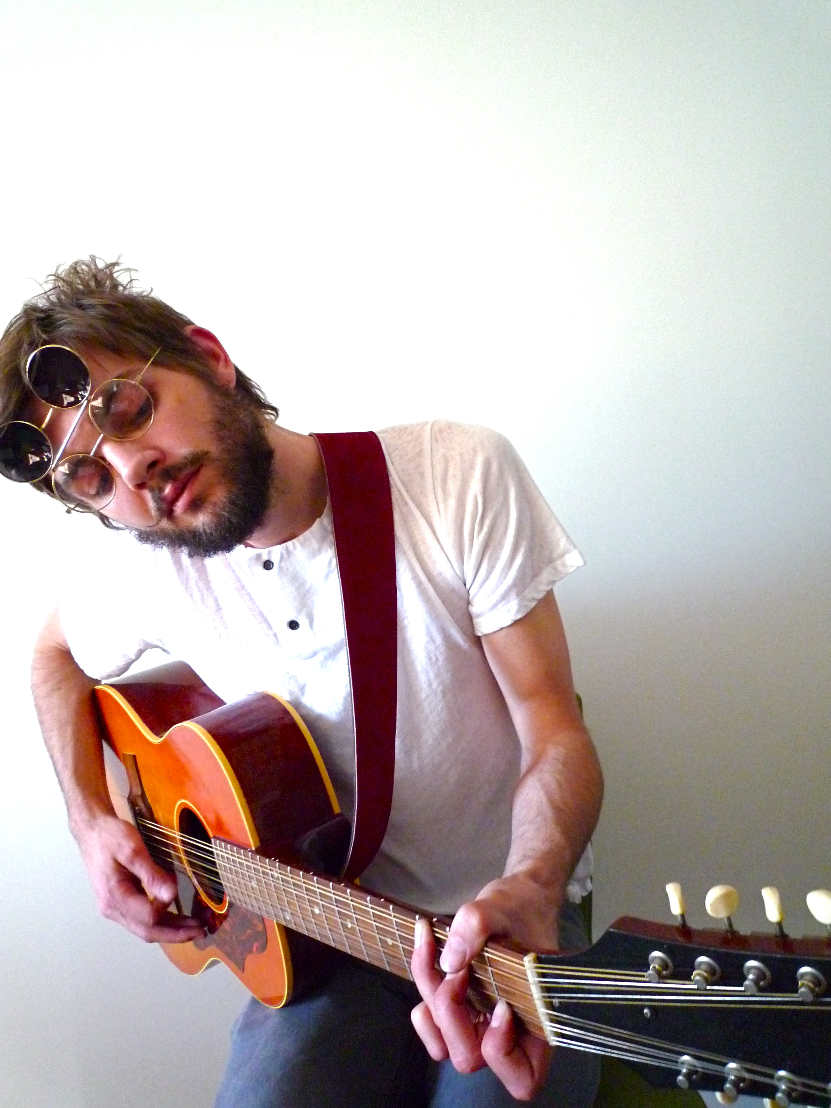 Nick Thune. Sometime in 2008.